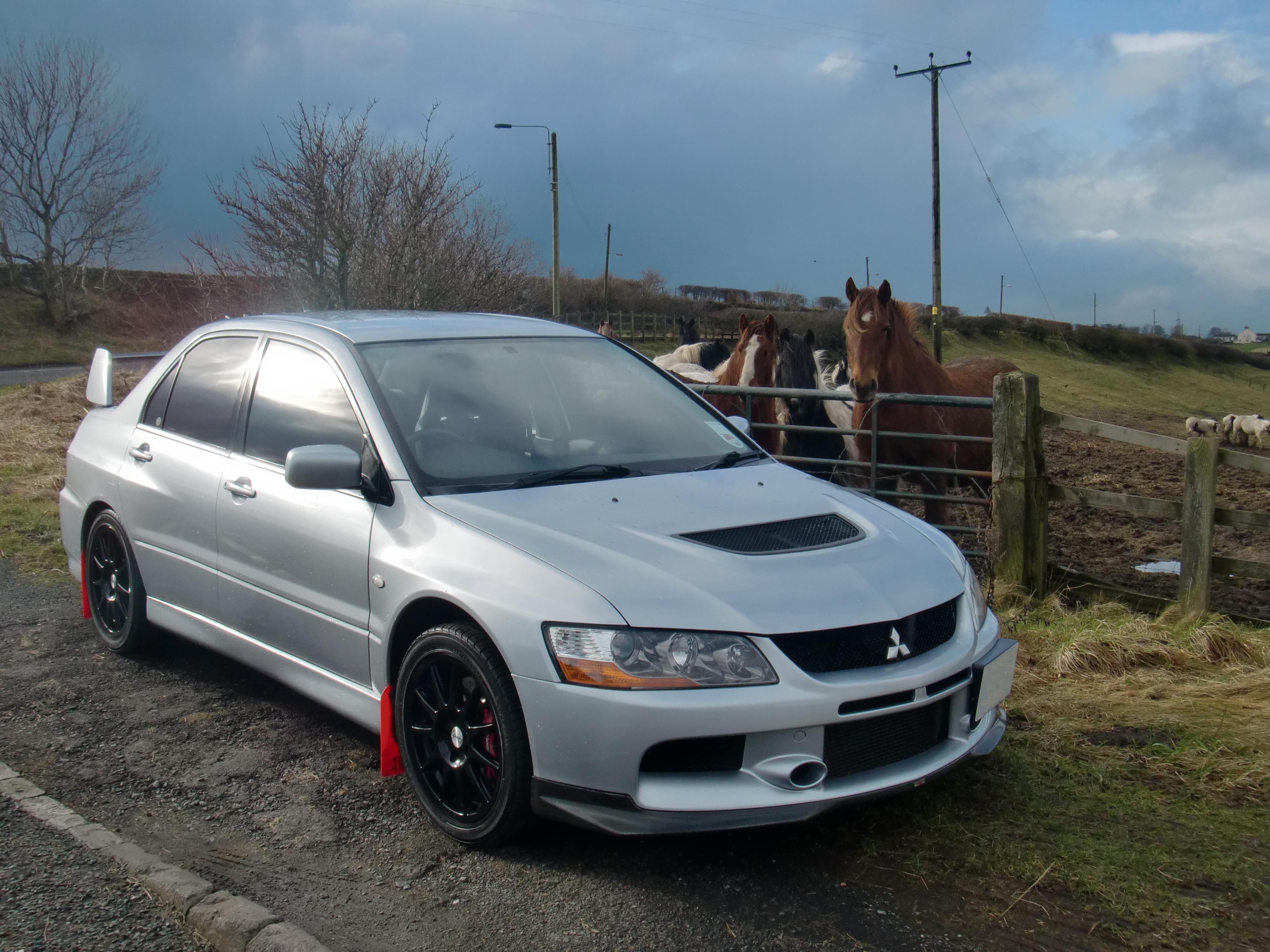 Mitsubishi Lancer Evolution IX FQ-360